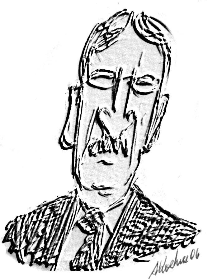 I don't do art for a living, neither for personal nor professional propaganda. I don't make any drawings for money. Thanks.